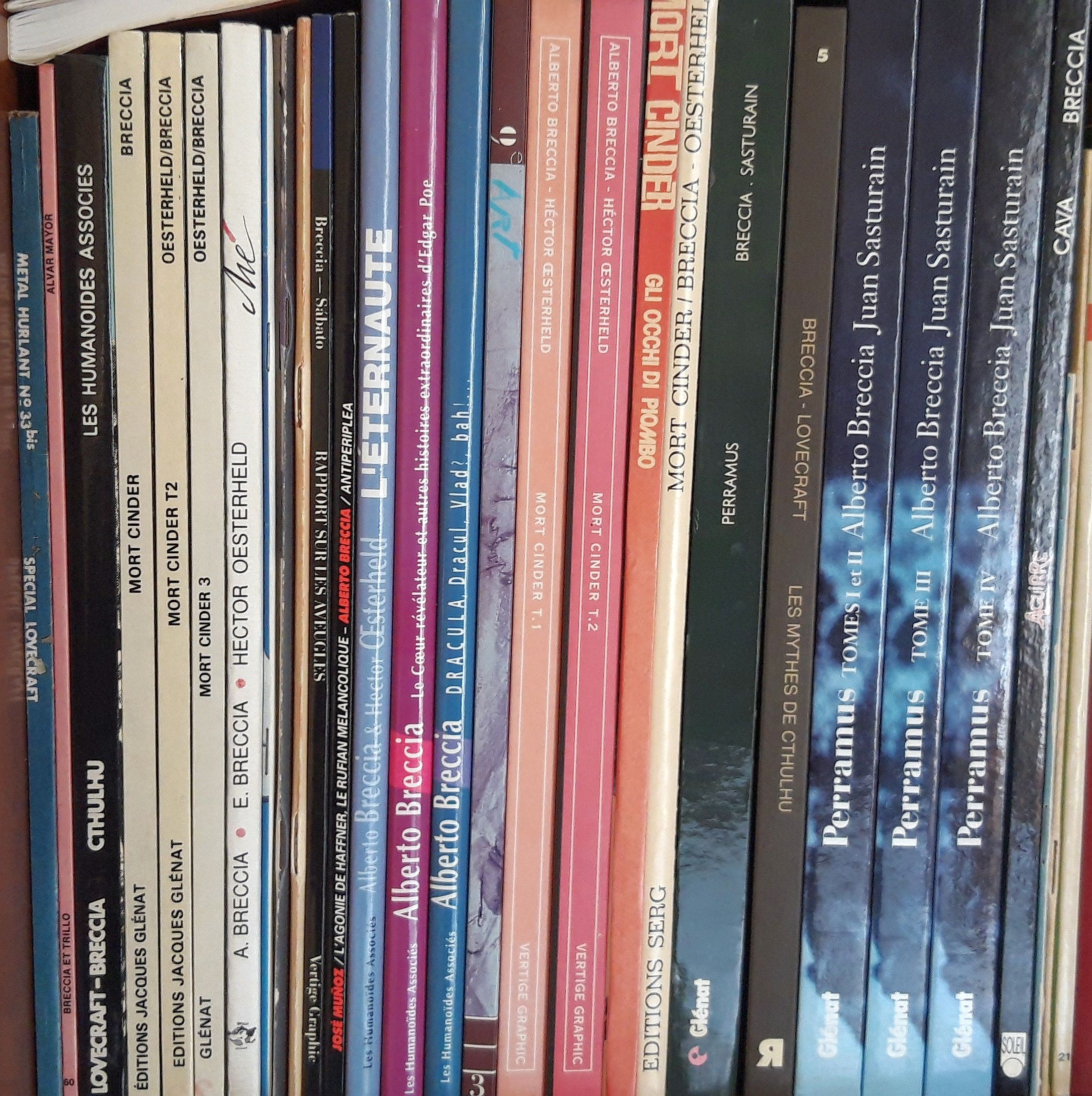 Breccia books